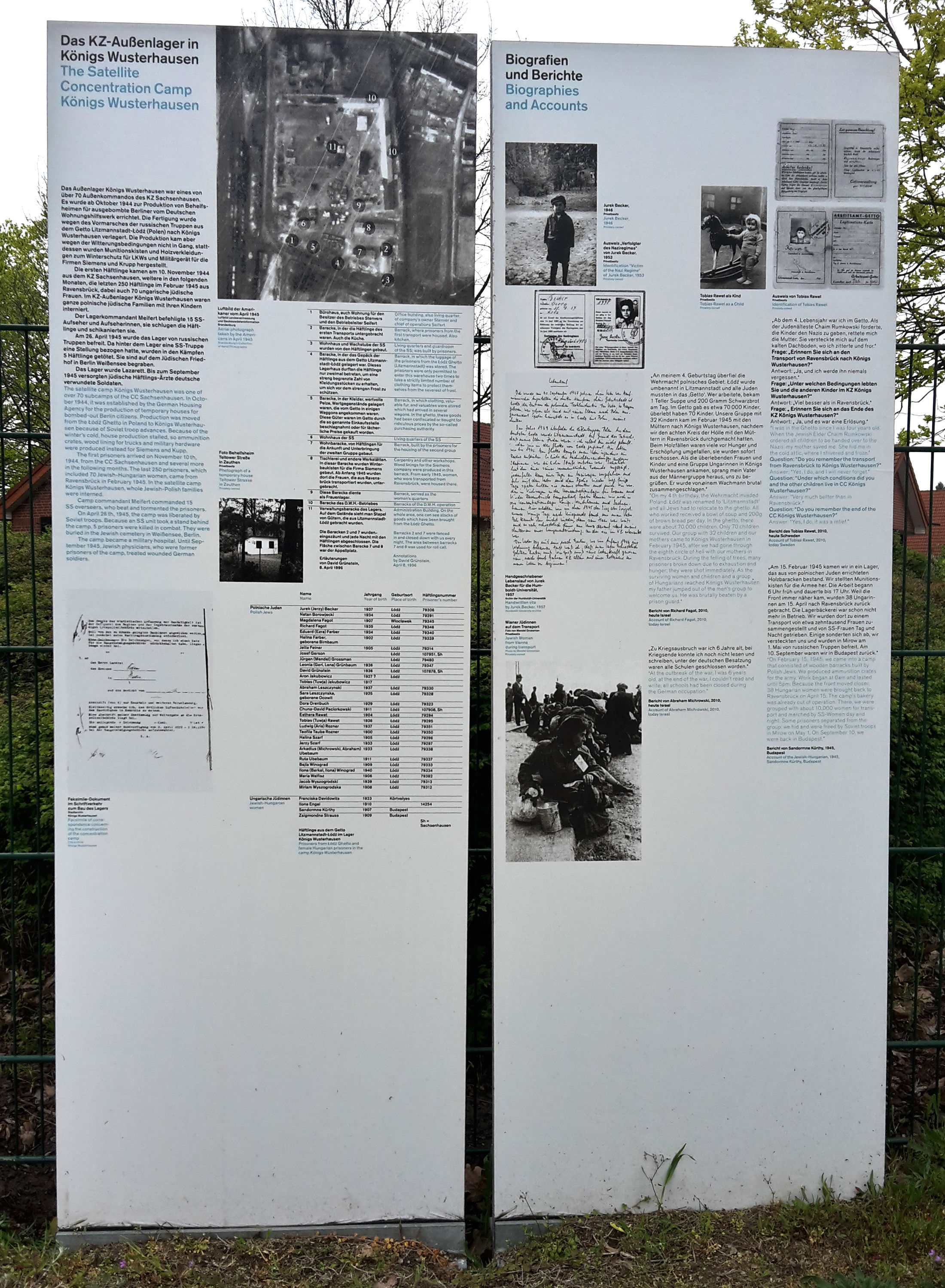 Memorial plaque at the former satellite concentration camp Königs Wusterhausen